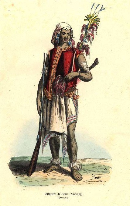 A Meo, a prominent West Timorese warrior from Amfoang, portrayed in the 1820s.